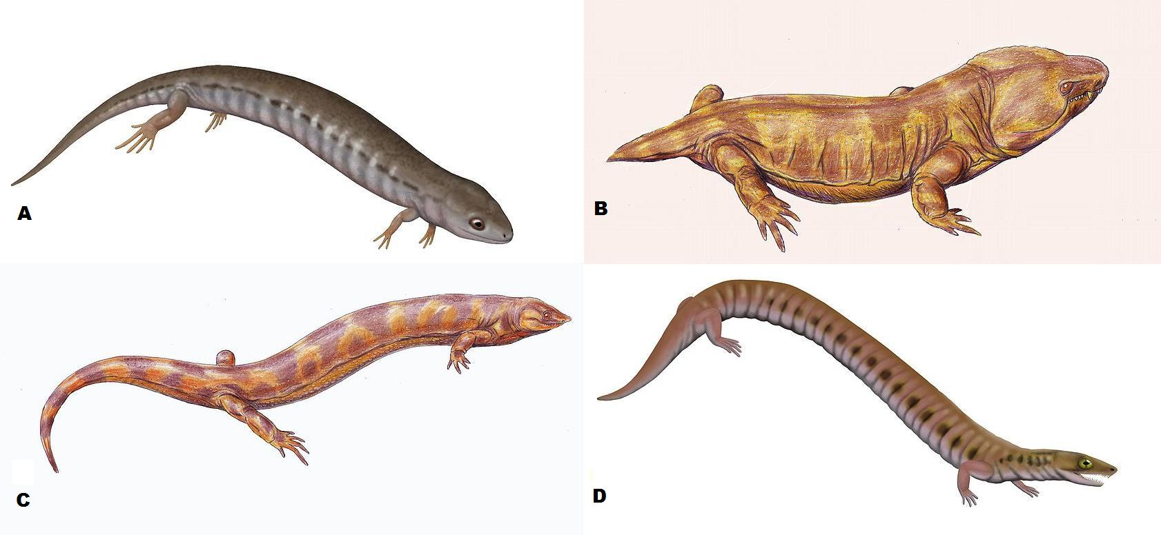 Microsauria diversity. (Hyloplesion (A), Pantylus (B), Pelodosotis (C) & Rhynchonkos (D)) Pictures (A-D) Smokeybjb. (B-C) Dmitry Bogdanov.